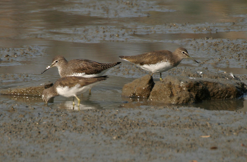 Green Sandpiper Tringa ochropus in Kolkata, West Bengal, India.